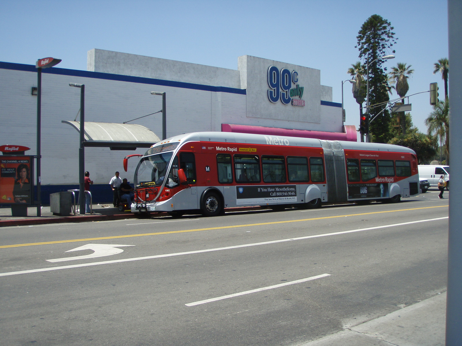 Metro Rapid by MTA